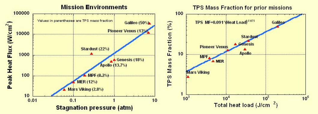 TPS and NASA solar system missions